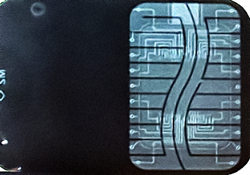 Radiograph of SmartMedia card. Made by dental X-ray machine with Agfa Dentatus film.